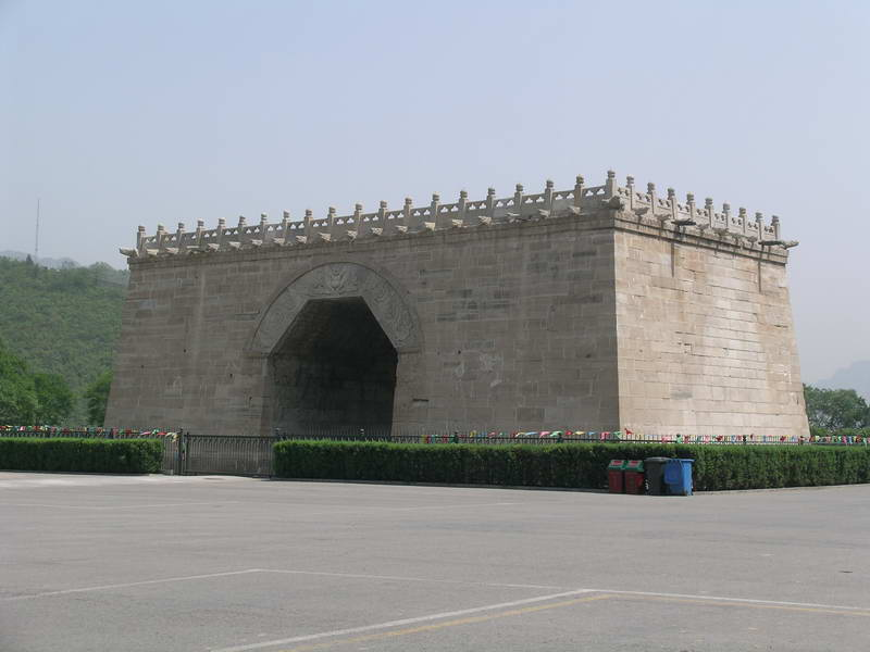 Cloud Platform at Juyongguan. 14th century art and architecture of the Yuan Dynasty.